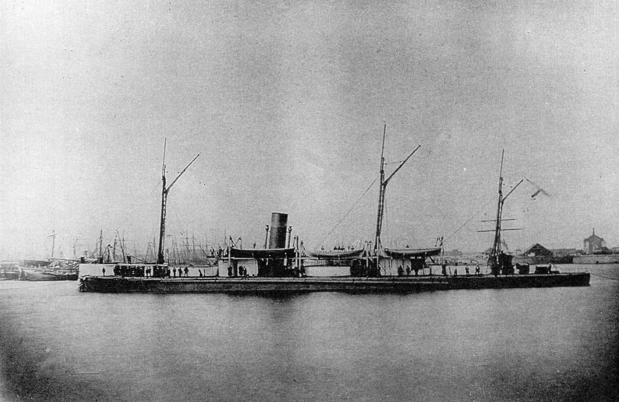 The Imperial Russian triple turret armoured frigate Admiral Lazarev.